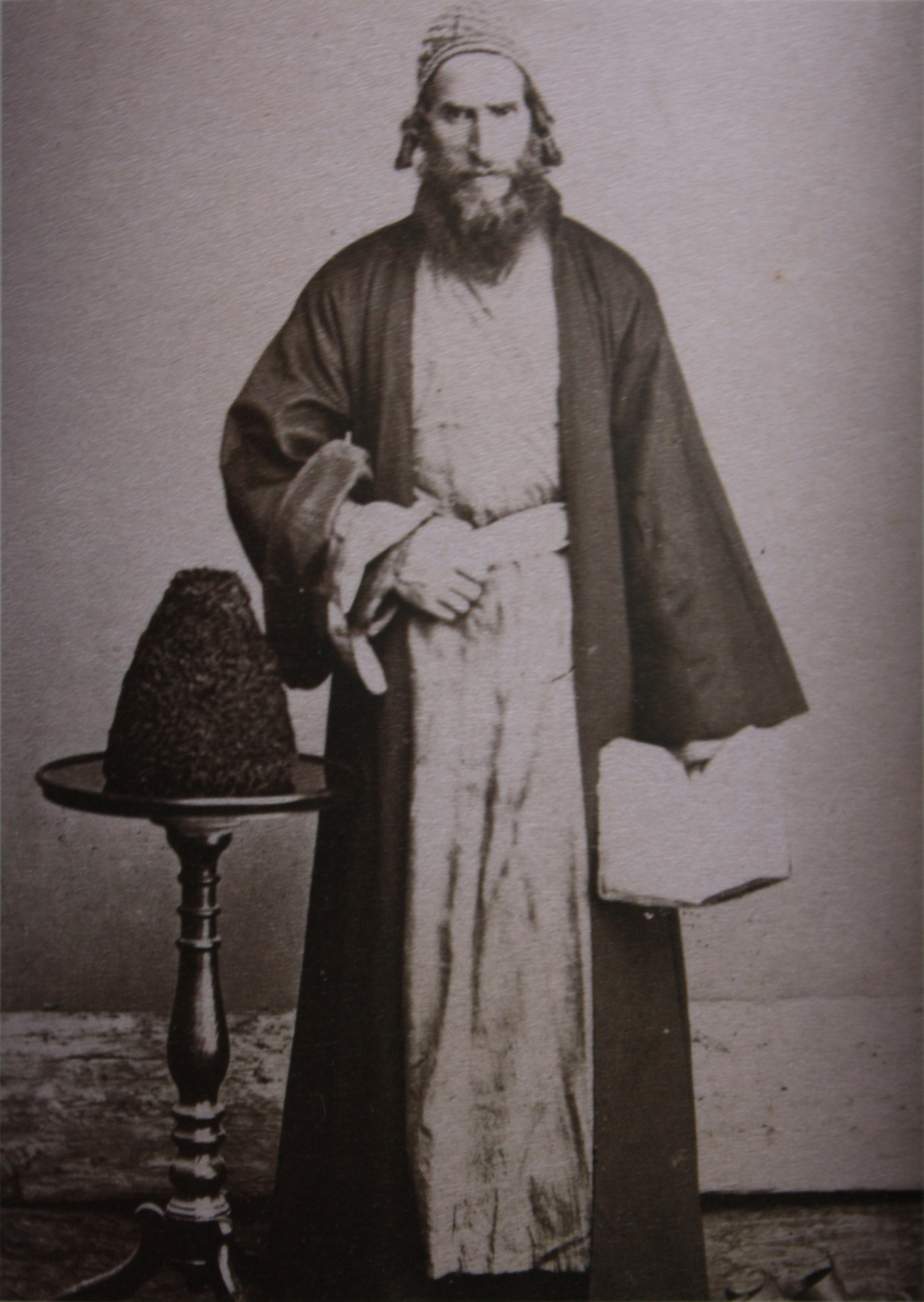 Rabbi, a Jew from Imereti